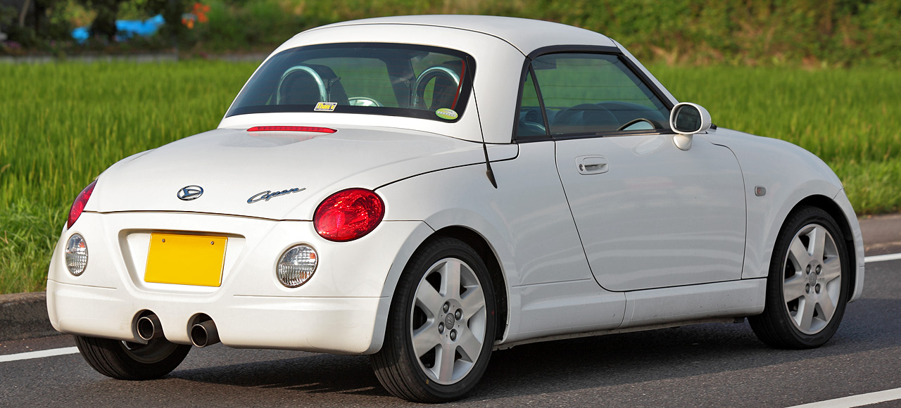 Daihatsu Copen 660